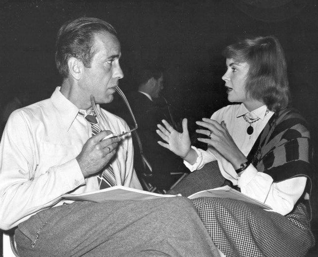 Photo of Humphrey Bogart and Dorothy McGuire rehearsing a radio show at CBS.